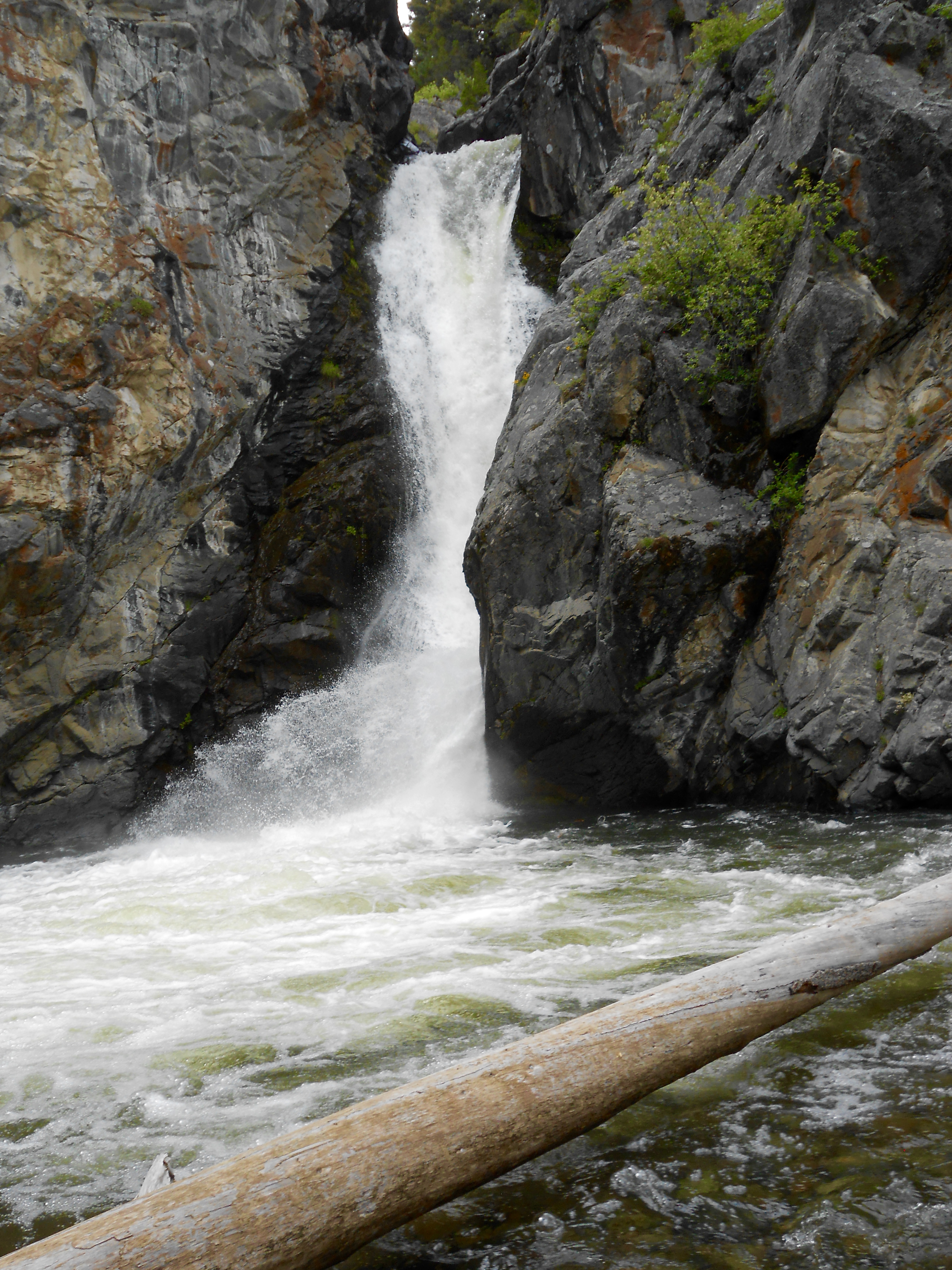 Crow Creek Falls, on Crow Creek in the Elkhorn Management Unit of the Helena National Forest, Broadwater County, Montana, is considered the "crown jewel" of the Helena National Forest